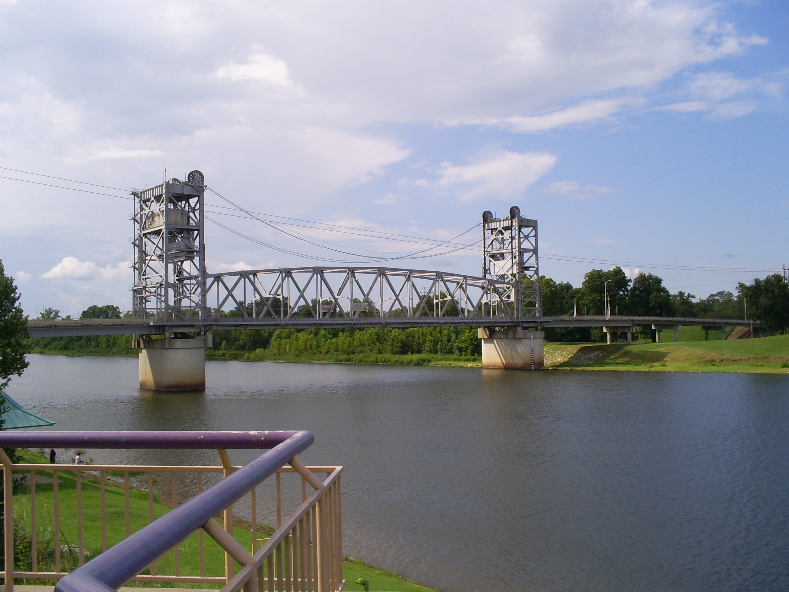 Jackson St. Bridge, Alexandria, Louisiana